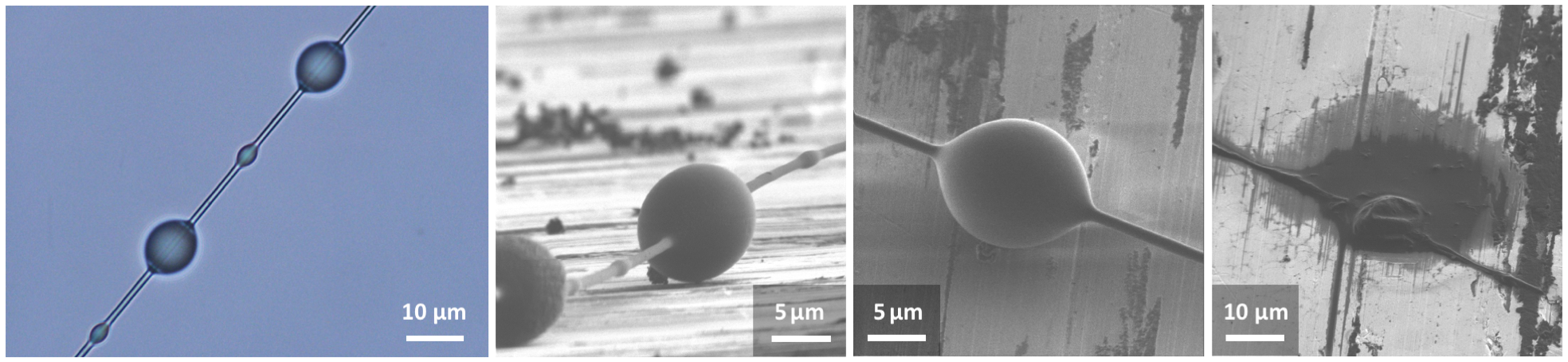 The figure on the left is an optical microscope image of glue balls. The second figure from left is a scanning ion secondary electron image of the glue balls. The two figures on the right are the scanning ion secondary electron images before and after adhesion of the substrate to the glue ball.